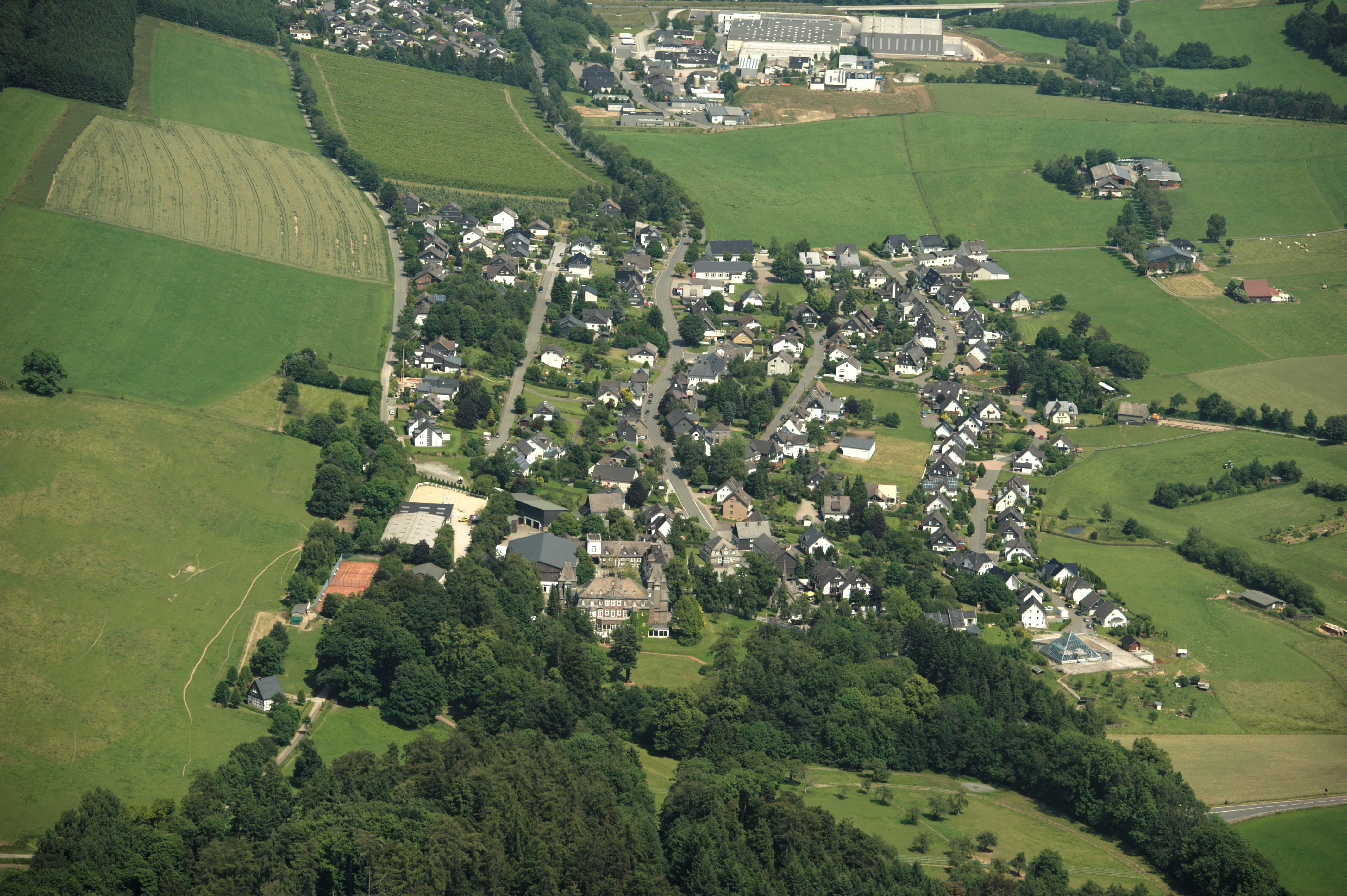 Fotoflug Sauerland-Ost, Schloss Gevelinghausen in Olsberg Gevelinghausen The making of this document was supported by the Community-Budget of Wikimedia Germany.